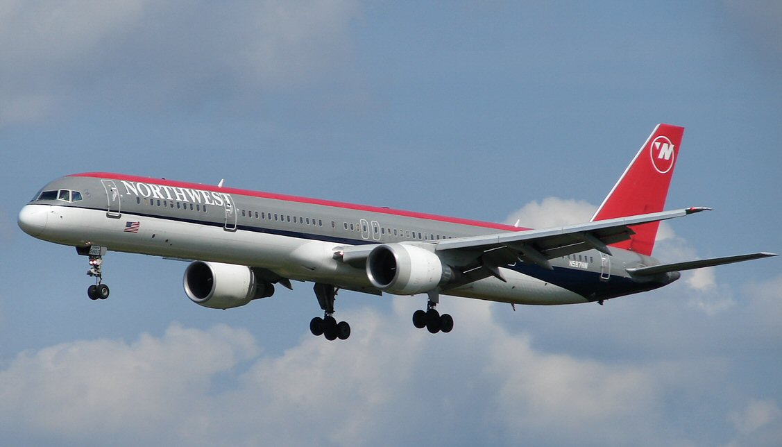 ooooo the flying pencil coming in to land at MSP, im kiddin i love the 757!